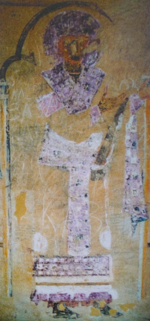 Fresco portrait of Demetre II from chapel of the Annunciation at Udabno